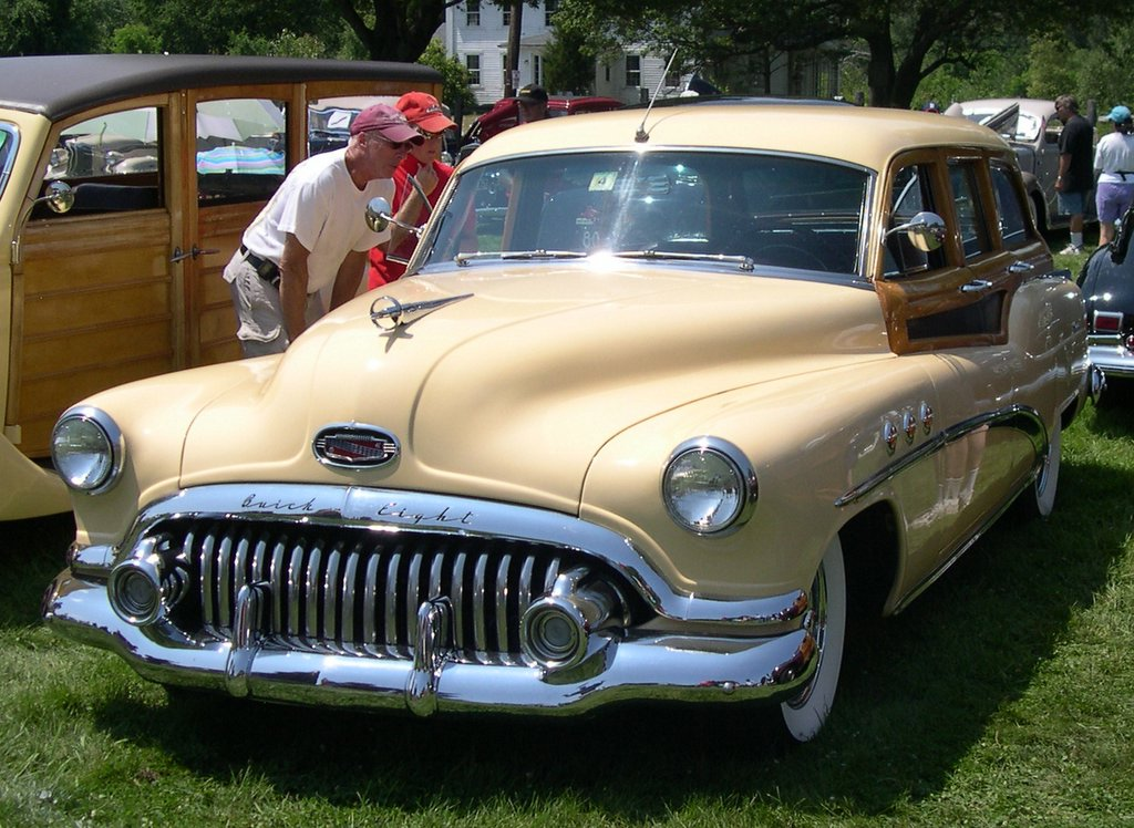 1952 Buick Super Series 50 Model 59 Woody Estate Wagon